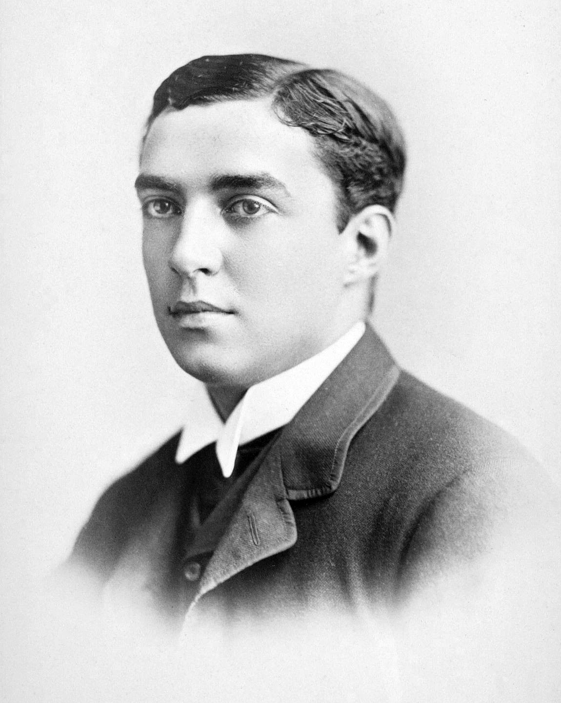 Photograph of actor and stage director Dion Boucicault Jr.